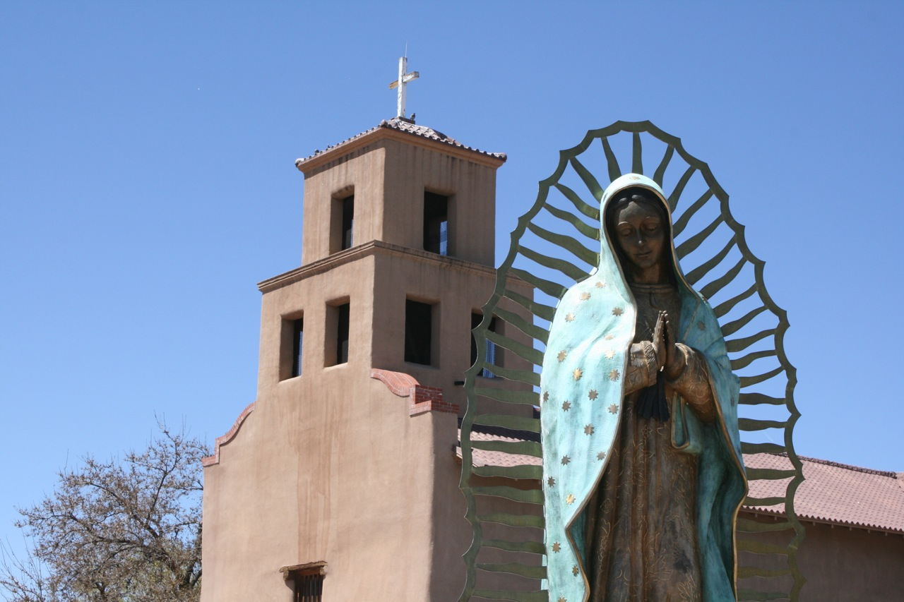 Our Lady of Guadalupe Church, aka El Santuario de Guadalupe, Santa Fe NM